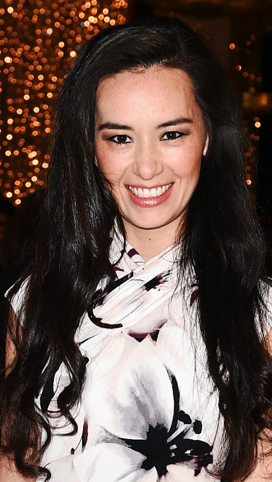 Cara Gee. Photo: Ernesto DiStefano/George Pimentel Photography.